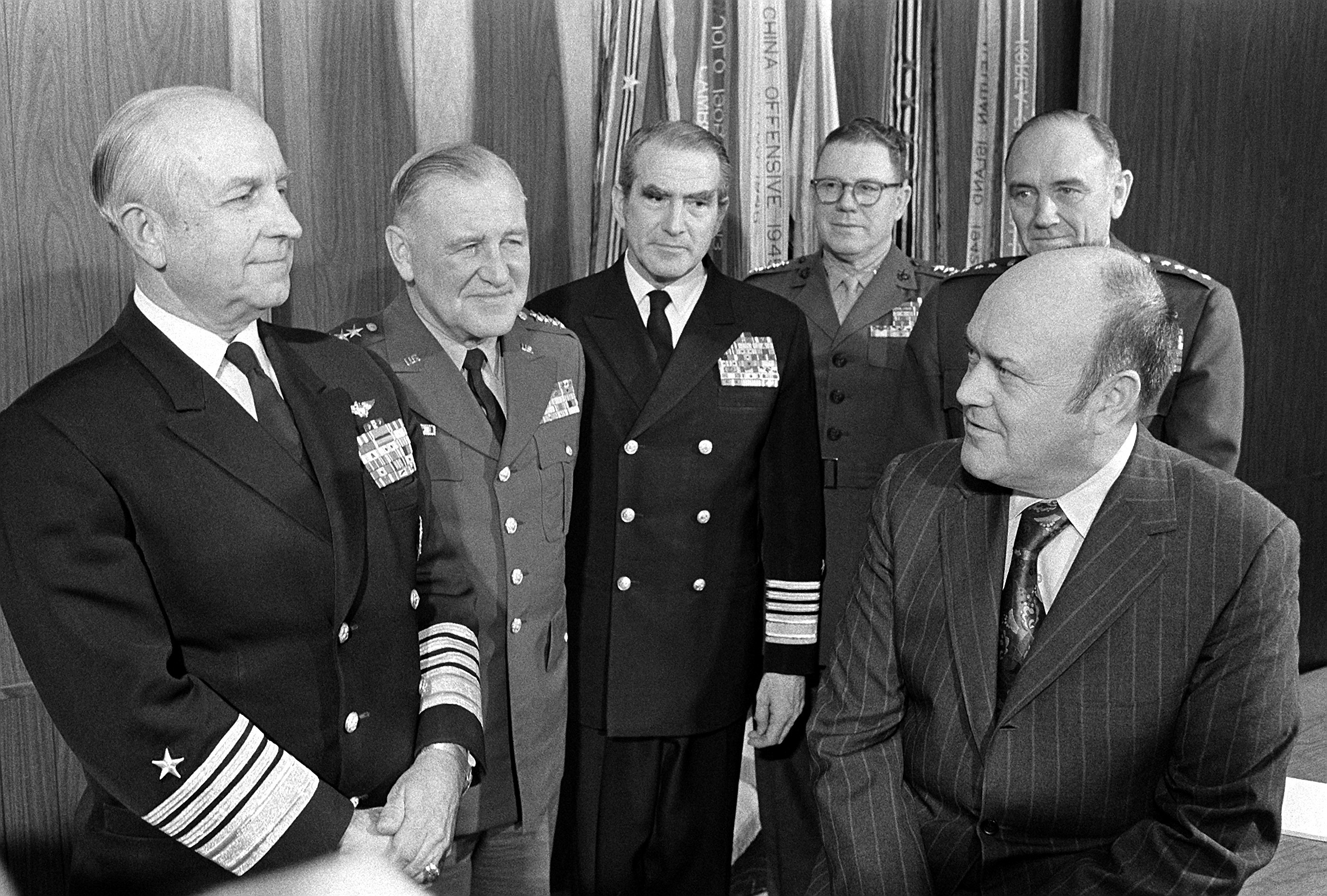 Secretary of Defense Melvin R. Laird meets with the Joint Chiefs of Staff in his Pentagon office. Attending the meeting are, left to right: Adm. Thomas H. Moorer, chairman; Gen. Creighton W. Abrams, chief of staff, U.S. Army; Adm. Elmo R. Zumwalt Jr., chief of naval operations; Gen. Robert E. Cushman Jr., commandant, U.S. Marine Corps; and Gen. John D. Ryan, chief of staff, U.S. Air Force.